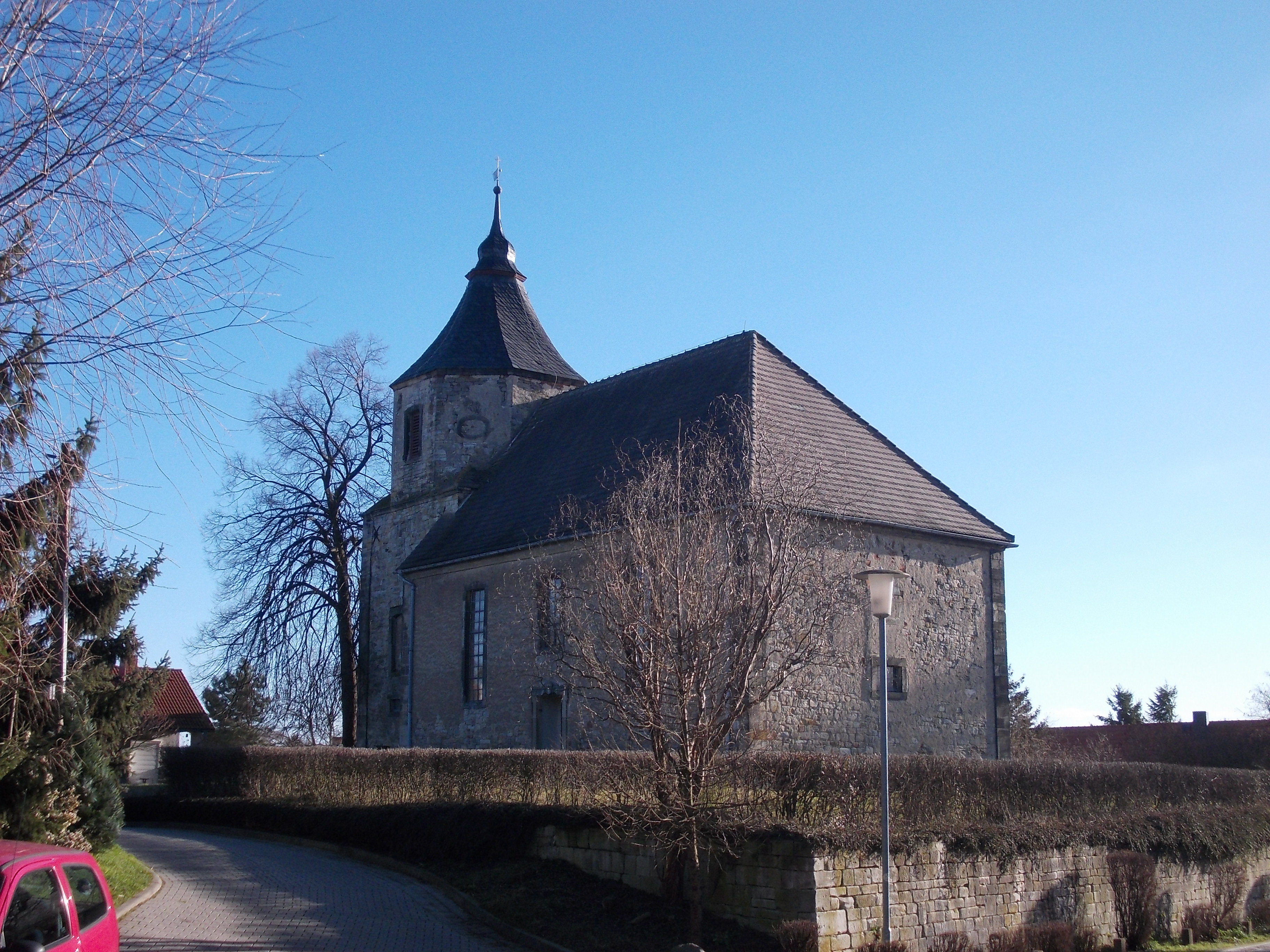 Tagewerben church (Weissenfels, district: Burgenlandkreis, Saxony-Anhalt)